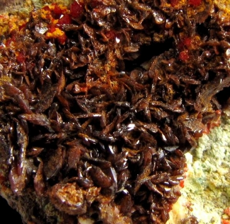 Iranite, Wulfenite Locality: Santa Ana Mine (Chapacase Mine), Tocopilla District, Tocopilla Province, Antofagasta Region, Chile Size: 2.3 cm x 2.1 cm x 1.7 cm Iranite is a very rare lead, copper chromate silicate and this fine combination thumbnail is from a very small abandoned lead-silver mine in Chile. Lustrous, brown iranite blades richly cover the matrix and are strikingly complemented by a beautiful cluster of riveting, cherry-red chromian wulfenite crystals at the top of the piece. This specimen was collected by Terry Szenics (Szenicsite), a very well-known South American field collector.